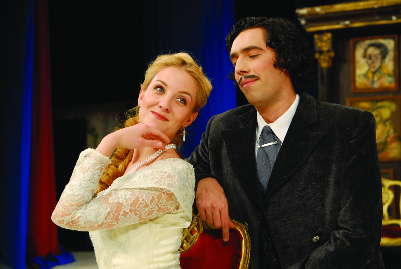 "Das Apfelfest" operetta by Johann Strauss, Senka Nedeljković, soprano, Goran Strgar, tenor, SNT, Novi Sad, 2006/07 Srpski (latinica): "Jabuka", opereta Johana Štrausa, Senka Nedeljković, sopran, Goran Strgar, tenor SNP, Novi Sad, 2006/07. Српски (ћирилица): "Јабука", оперета Јохана Штрауса, Сенка Недељковић, сопран, Горан Стргар, тенор СНП, Нови Сад, 2006/07.